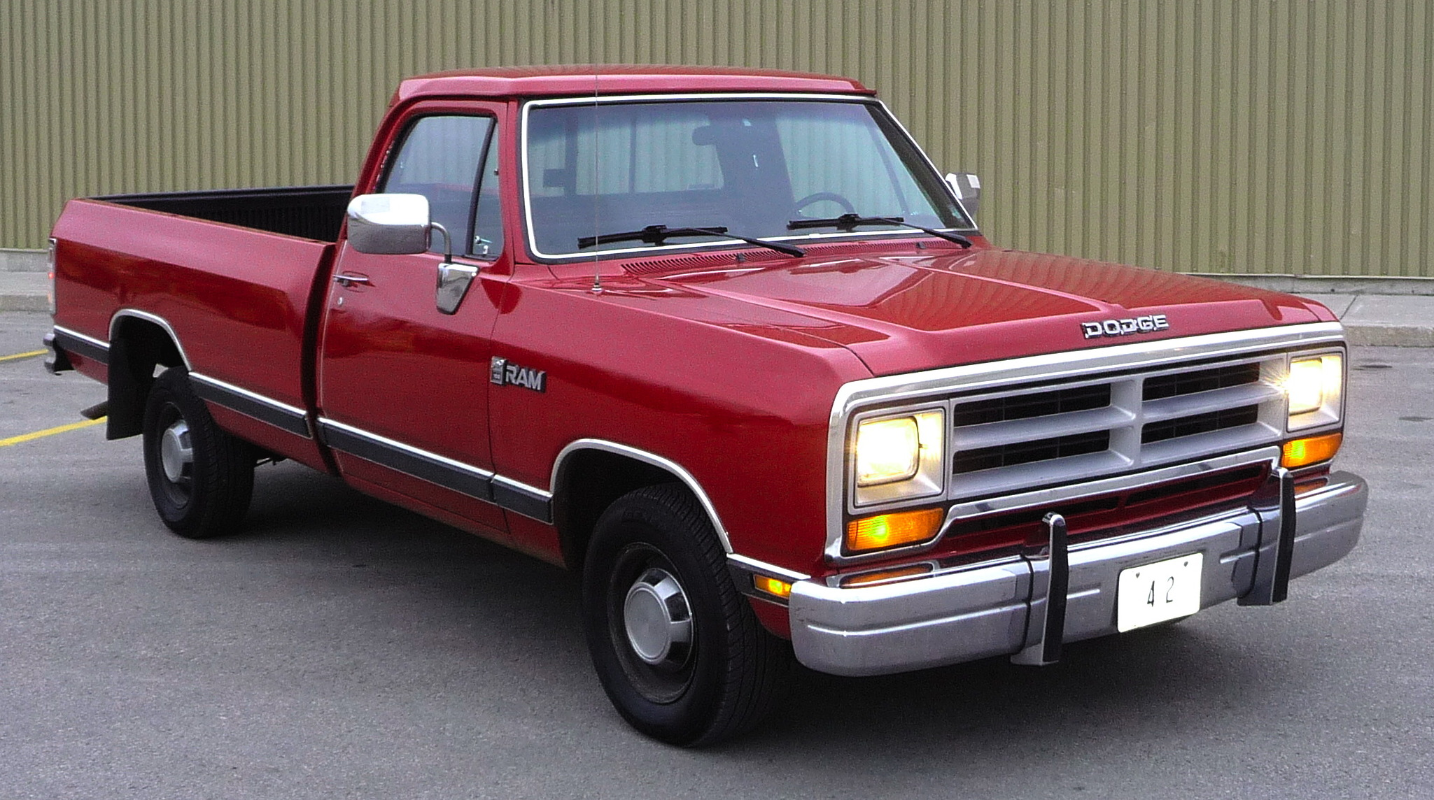 1989 Dodge Ram D100 truck